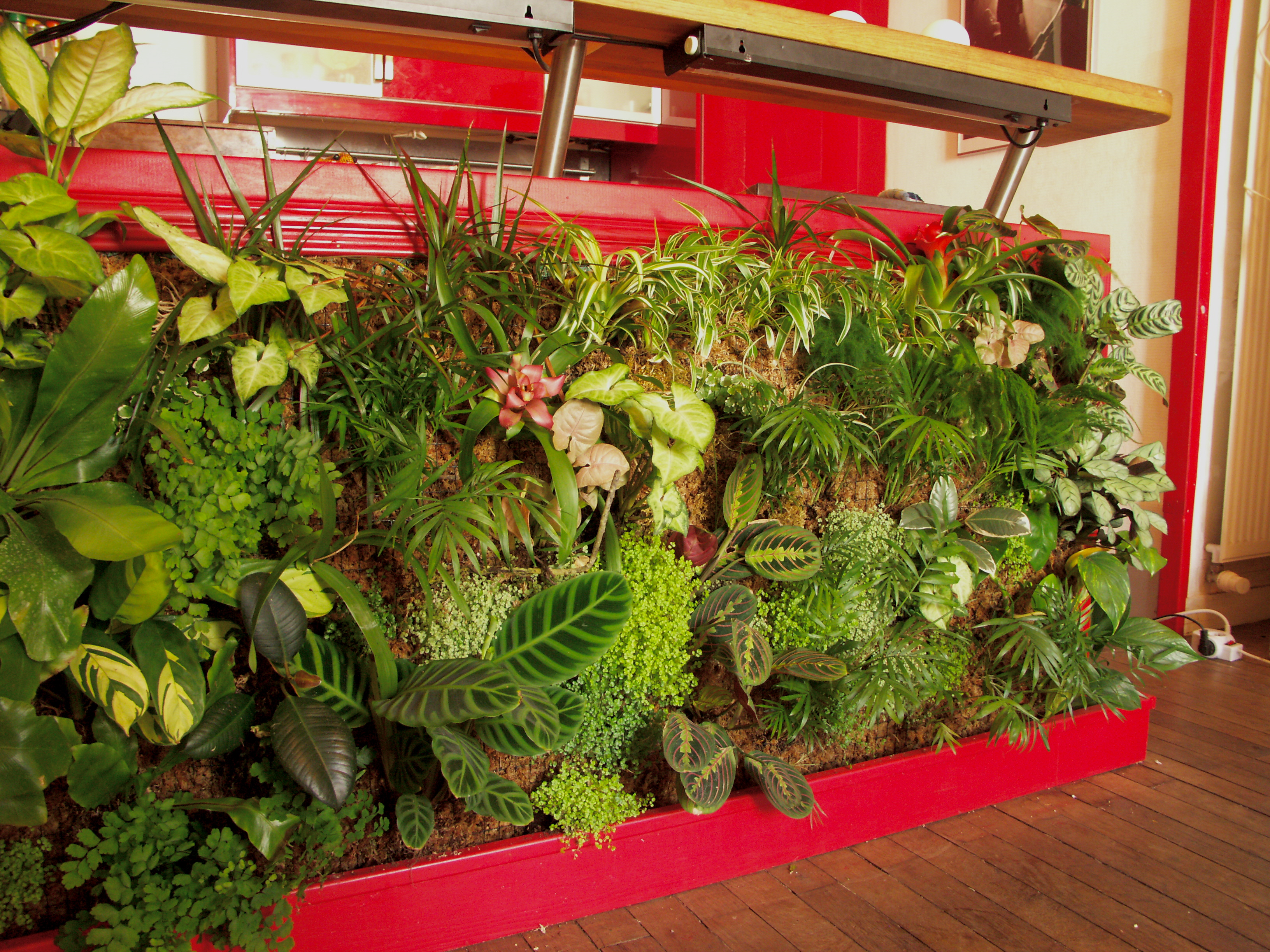 Vegetal wall